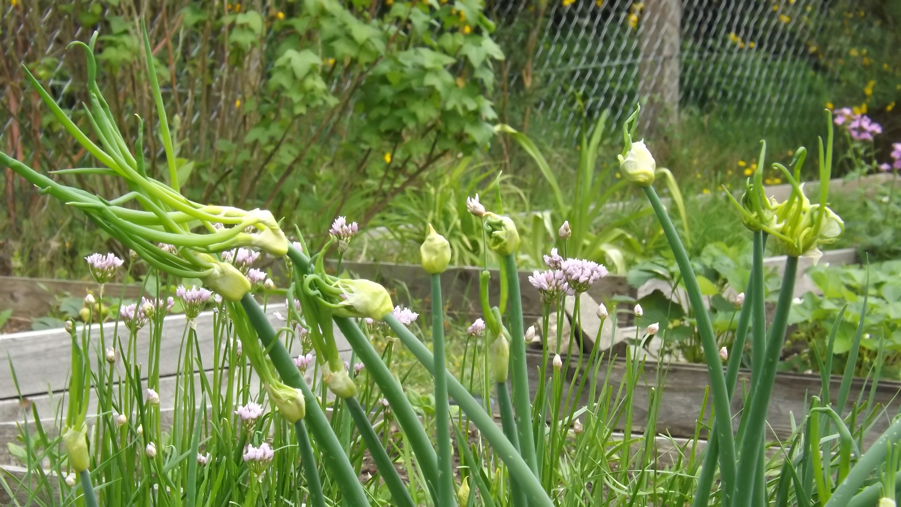 Allium cepa var proliferum